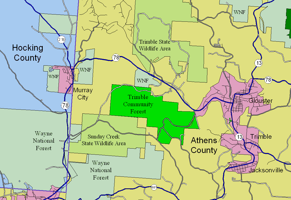 Trimble Community Forest, created using ArcView GIS 3.3 and